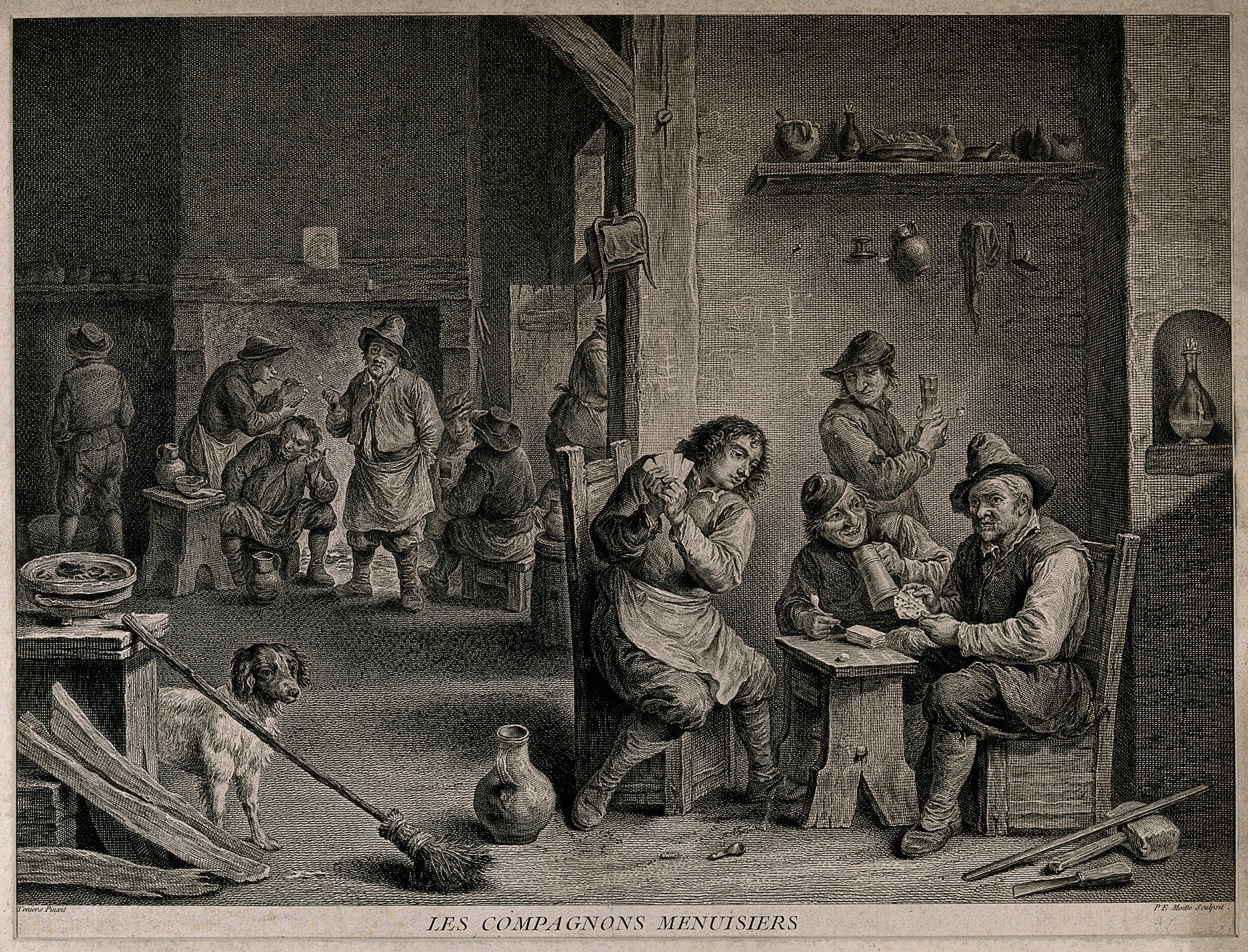 The interior of a dingy smoke den where groups of men smoke, drink and play cards. Engraving by P. Moitte, 18th century, after a painting by D. Teniers, the younger. Iconographic Collections Keywords: David Teniers; Pierre Etienne Moitte